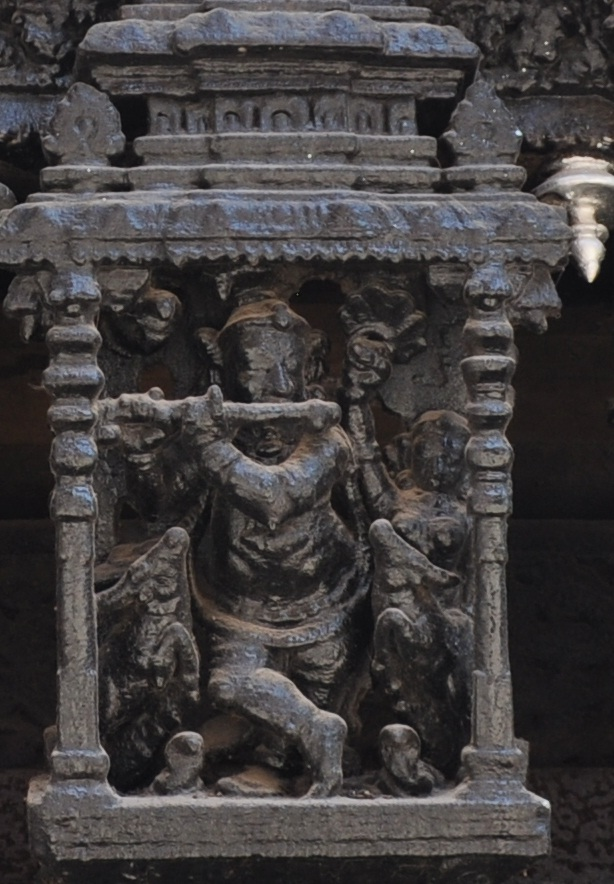 temple car carving of Krishna playing flute , suchindram ,tamil nadu